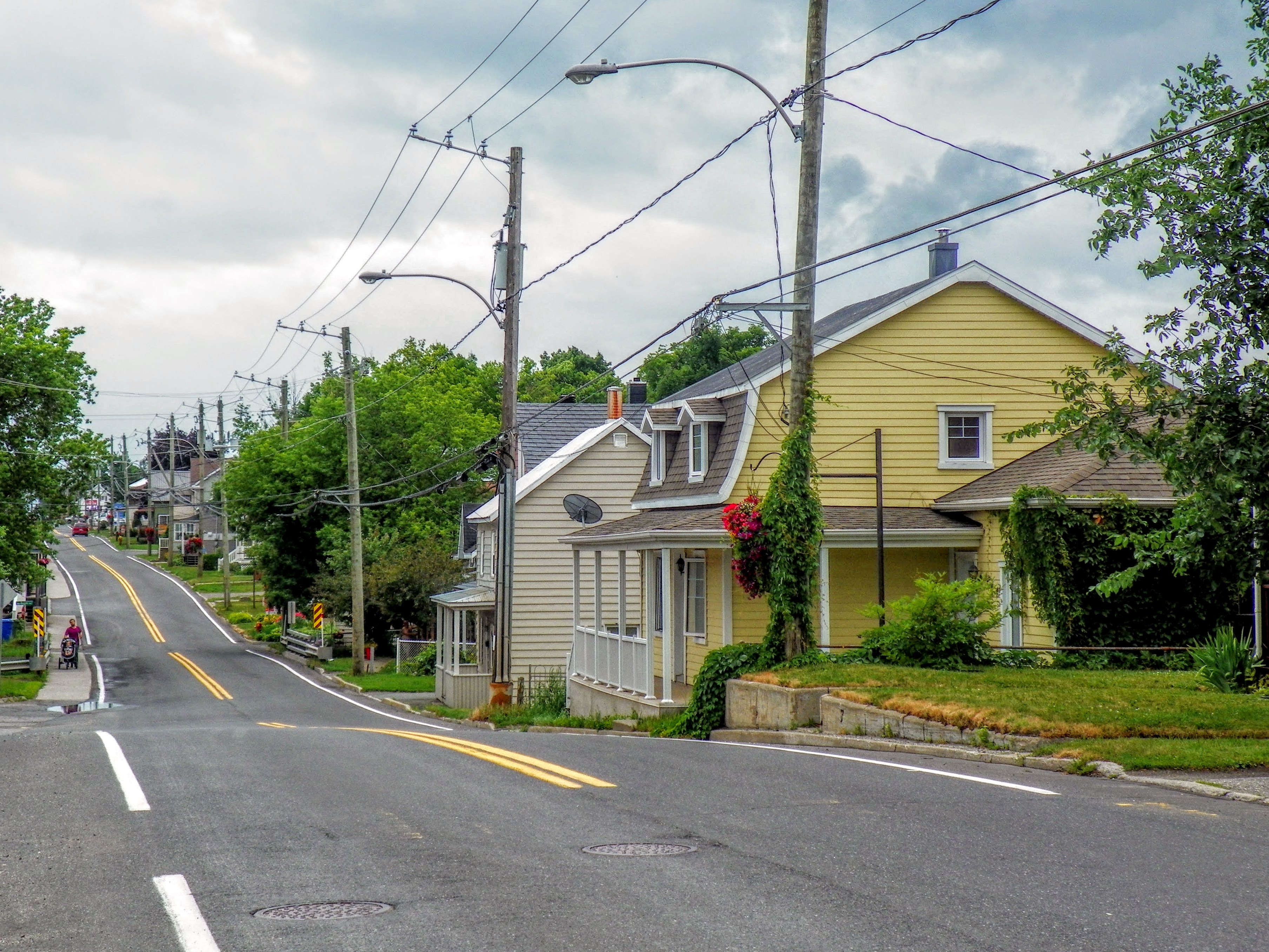 Saint-Georges street (main street) in Saint-Bernard, Québec.